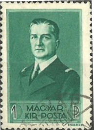 Rear Admiral Miklós Horthy de Nagybánya, Regent of the Kingdom of Hungary 1920 to 1944. (Portrait on a contemporary postal stamp).